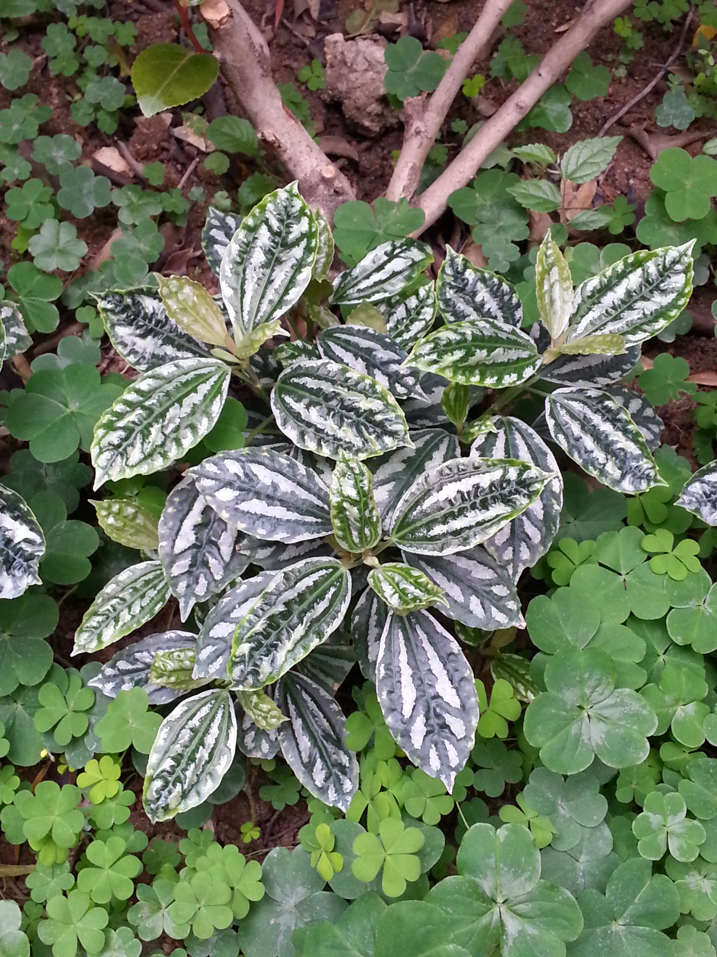 Pilea notata in Kowloon Park , Hong Kong中文（香港）: 冷水花，拍攝於香港九龍公園